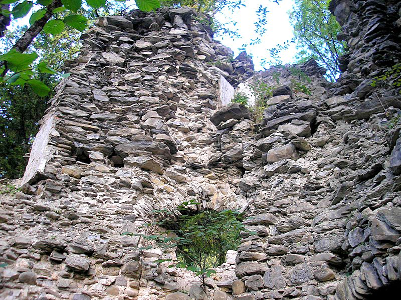 Fluhenstein castle (Berghofen, Stadt Sonthofen, Landkreis Oberallgäu, Bavaria, Germany). The eastern part of the keep, seen from inside